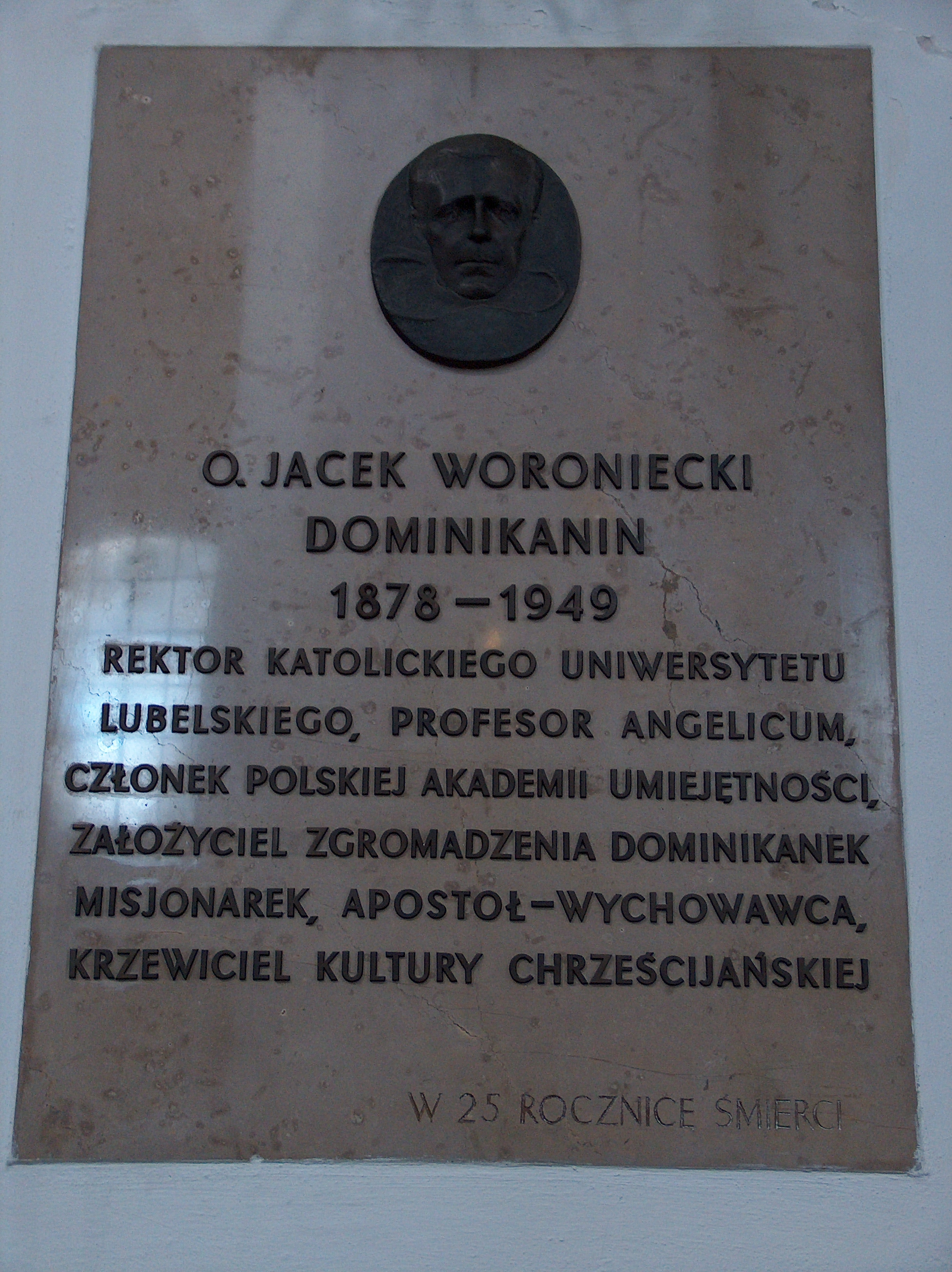 Memorial devoted to a Polish dominican friar, Father Jacek Woroniecki (1878-1949). It was erected to commemorate 25th anniversary of his death.